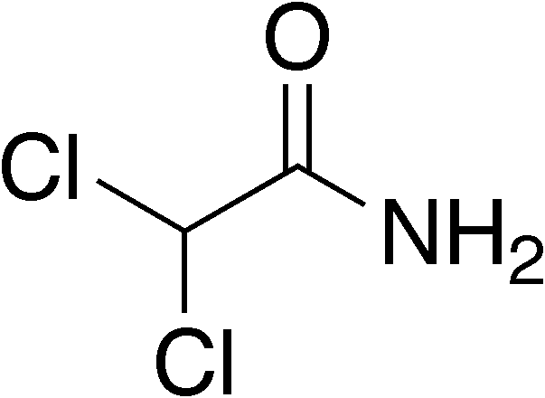 chemical structure of dichloroacetamide